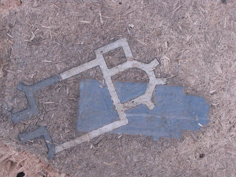 Plan of the old stone church, XIII-th century